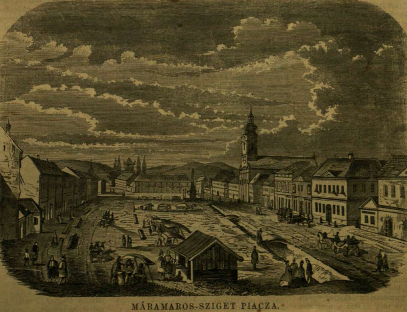 Máramarossziget in 1876